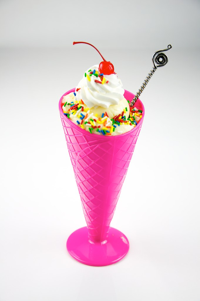 Ice Cream Sundae